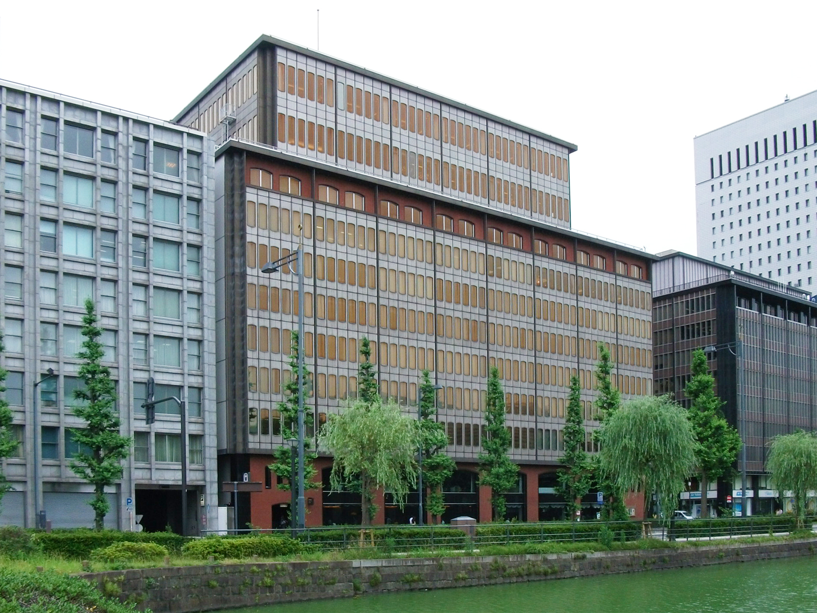 Tokyo-kaikan(Tokyo, japan)